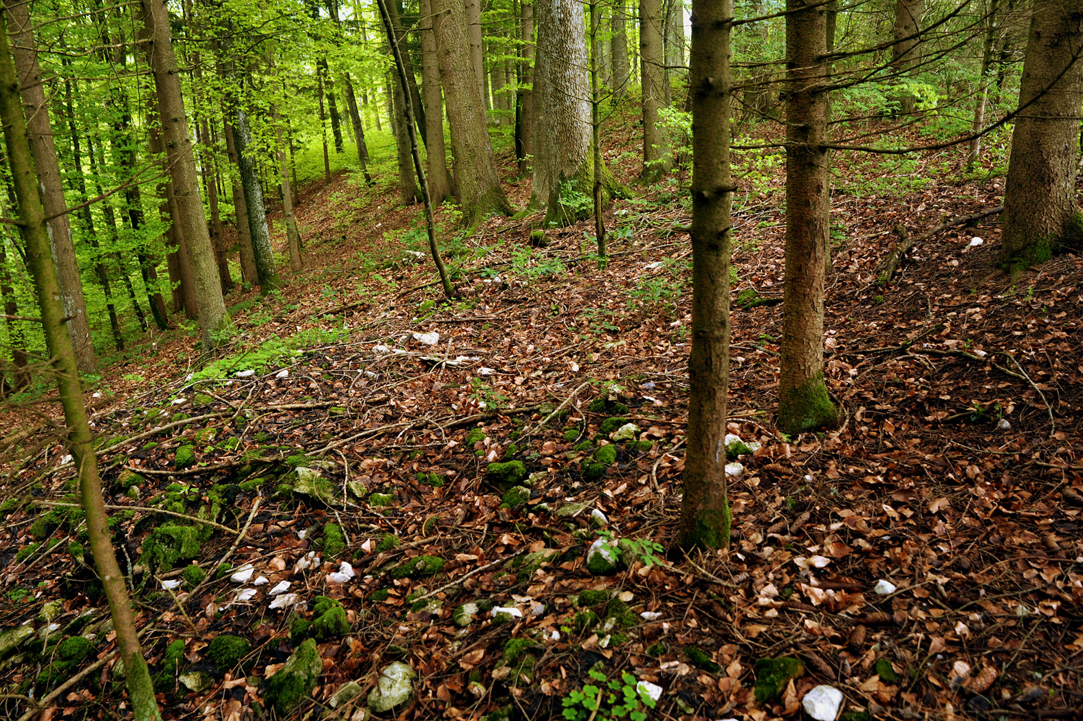 Crash site of the Bachem Ba 349 „Natter“ M23 with pilot Lothar Sieber south of Nusplingen near Stetten am kalten Markt; Baden-Württemberg, Germany.